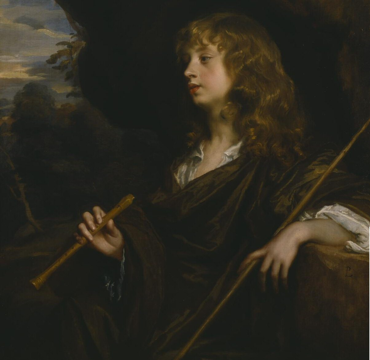 A Boy as a Shepherd. The painting was in Horace Walpole's collection and is currently on long loan to his former house, Strawberry Hill House, Twickenham. Walpole supposed the sitter to be the poet Abraham Cowley (1618-1667).